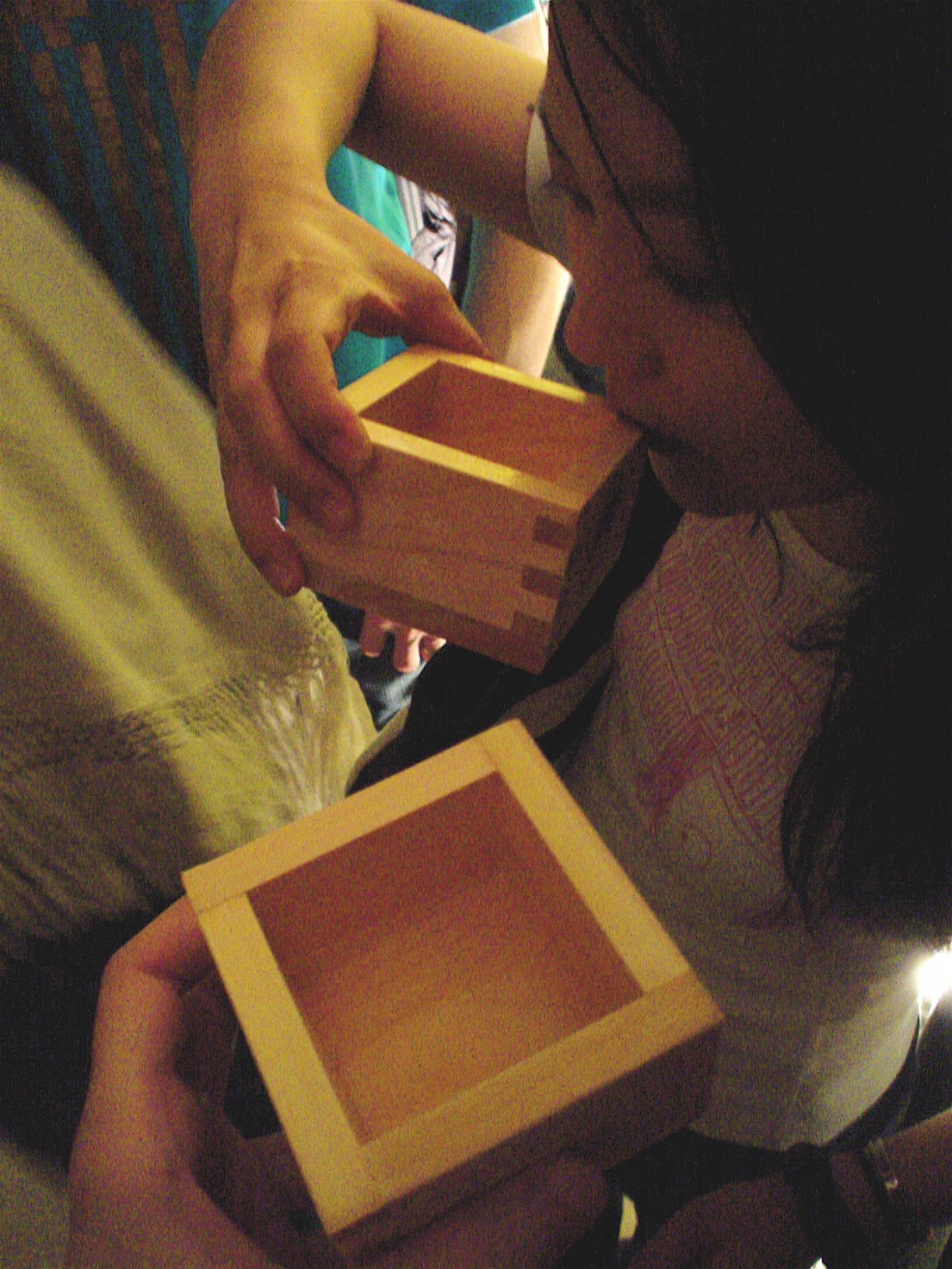 It is supposed to mean luck.